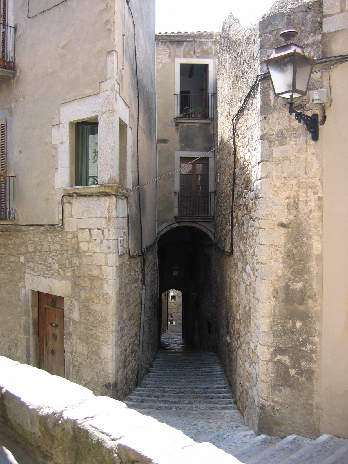 Manuel Cundaro street of the Jewry, Girona, Catalonia